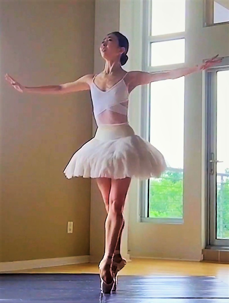 Swans For Relief - Yuriko Kajiya, Houston Ballet, USA 32 premier ballerinas from 22 dance companies in 14 countries perform Le Cygne (The Swan) variation sequentially in support of Swans for Relief. Organized by Misty Copeland and Joseph Phillips, 100% of the funds raised will be distributed to each dancer’s company’s COVID-19 relief fund, or other arts/dance-based relief fund in the event that a company is not set up to receive donations. To donate please visit, Ballet companies are largely dependent on revenue from performances to pay their dancers and fund their operations, but due to the coronavirus pandemic, all performances have been halted. Consequently, many dancers are unable to depend on paychecks and are facing the hardship of paying rent and/or buying food and other necessities. Le Cygne (The Swan) with music by Camille Saint-Saëns, performed by cellist Wade Davis (USA), with choreography by Michel Fokine by kind permission of the Fokine Estate-Archive.